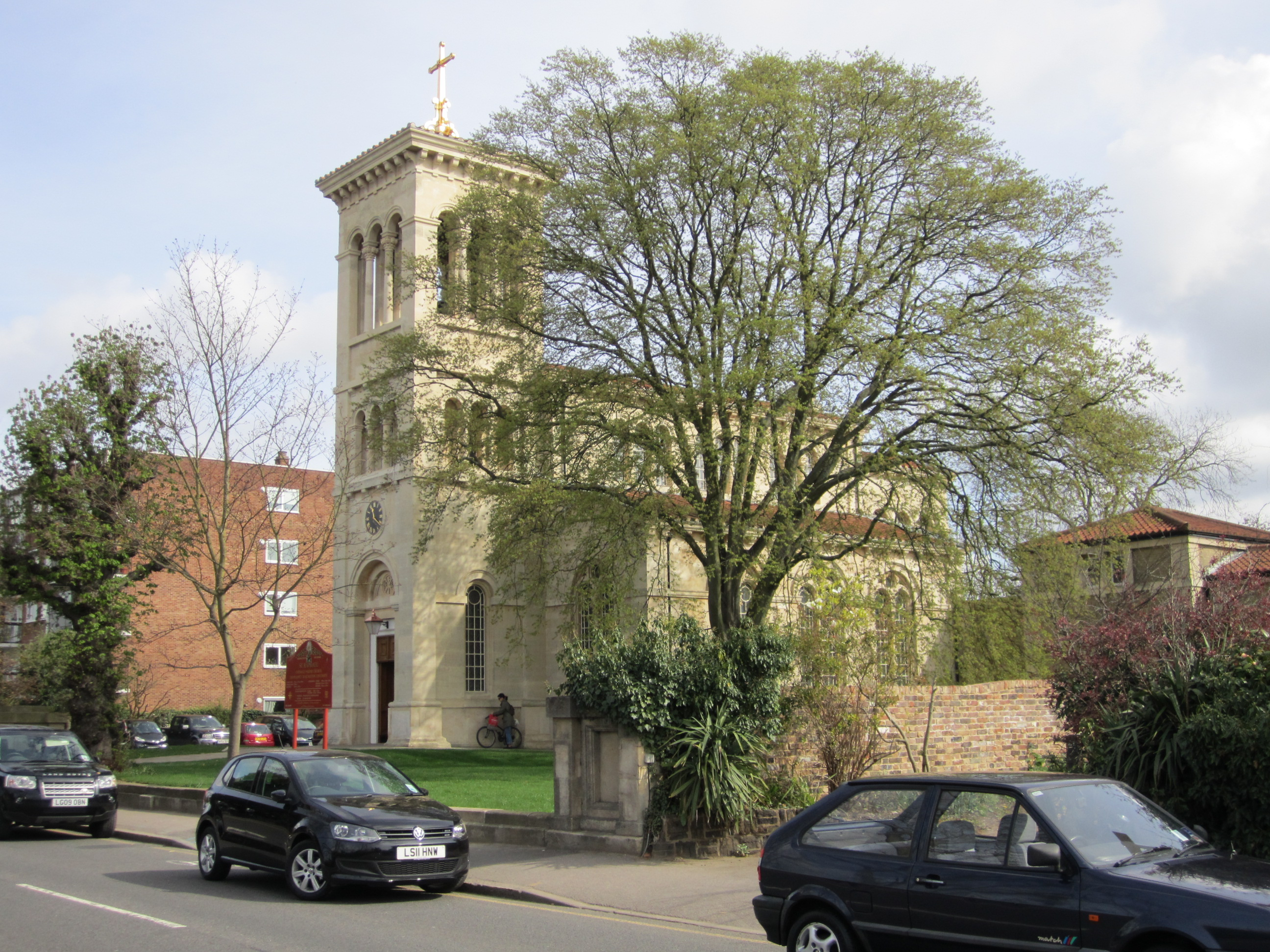 Roman Catholic church of St Raphael, Portsmouth Road, Kingston, Surrey, England, seen from the southwest